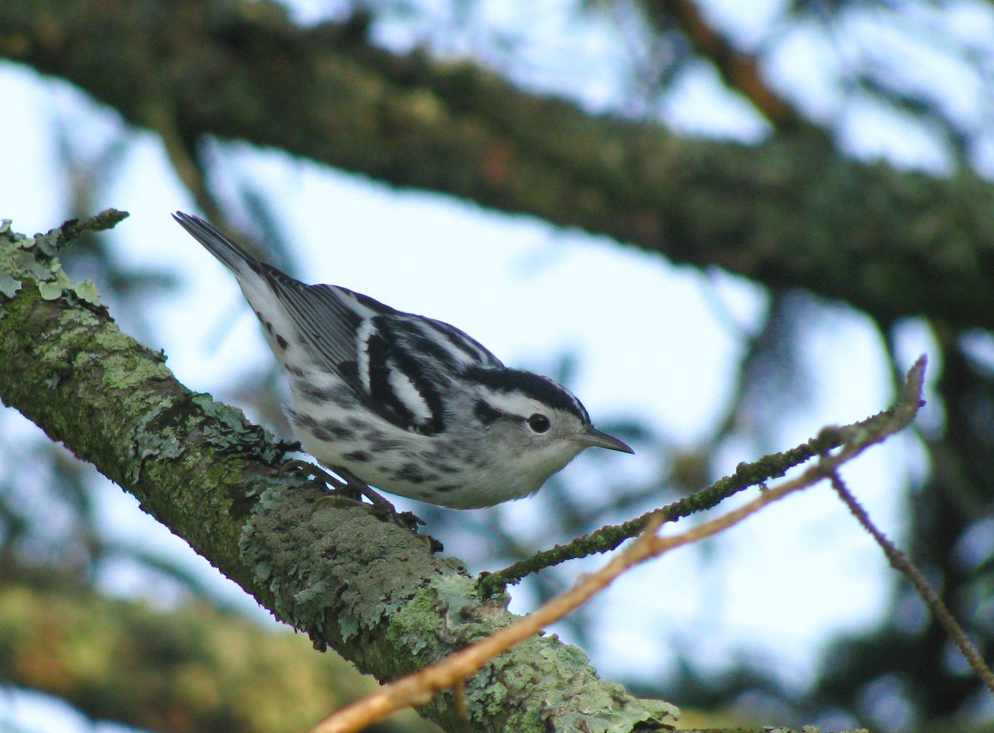 Black-and-white Warbler in Pemaquid, Maine